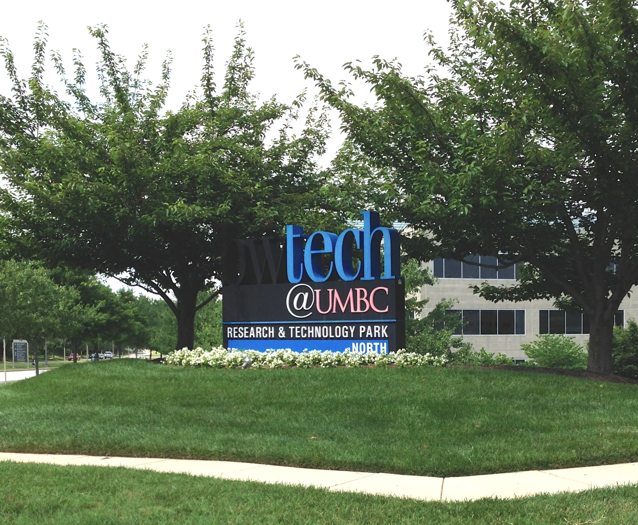 BWTech@UMBC Research & Technology Park, Maryland's first campus research park at the University of Maryland, Baltimore County. This is the entrance located off of UMBC Boulevard.